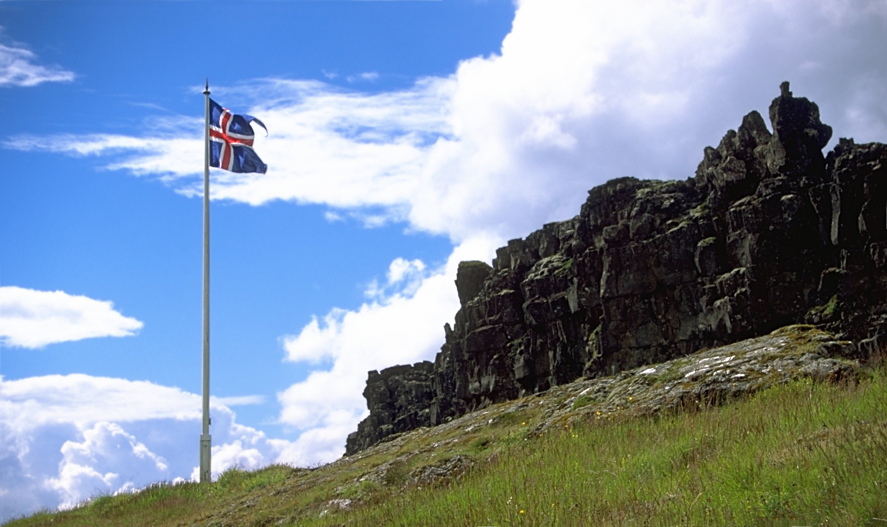 Flag at Þingvellir; Iceland Photo was taken using the following technique: Film: Fuji Velvia Lens: 28-80 Filter: Body: Minolta Dynax 600si Support: Gitzo Monotrek Image with Information in English Bild mit Informationen auf Deutsch